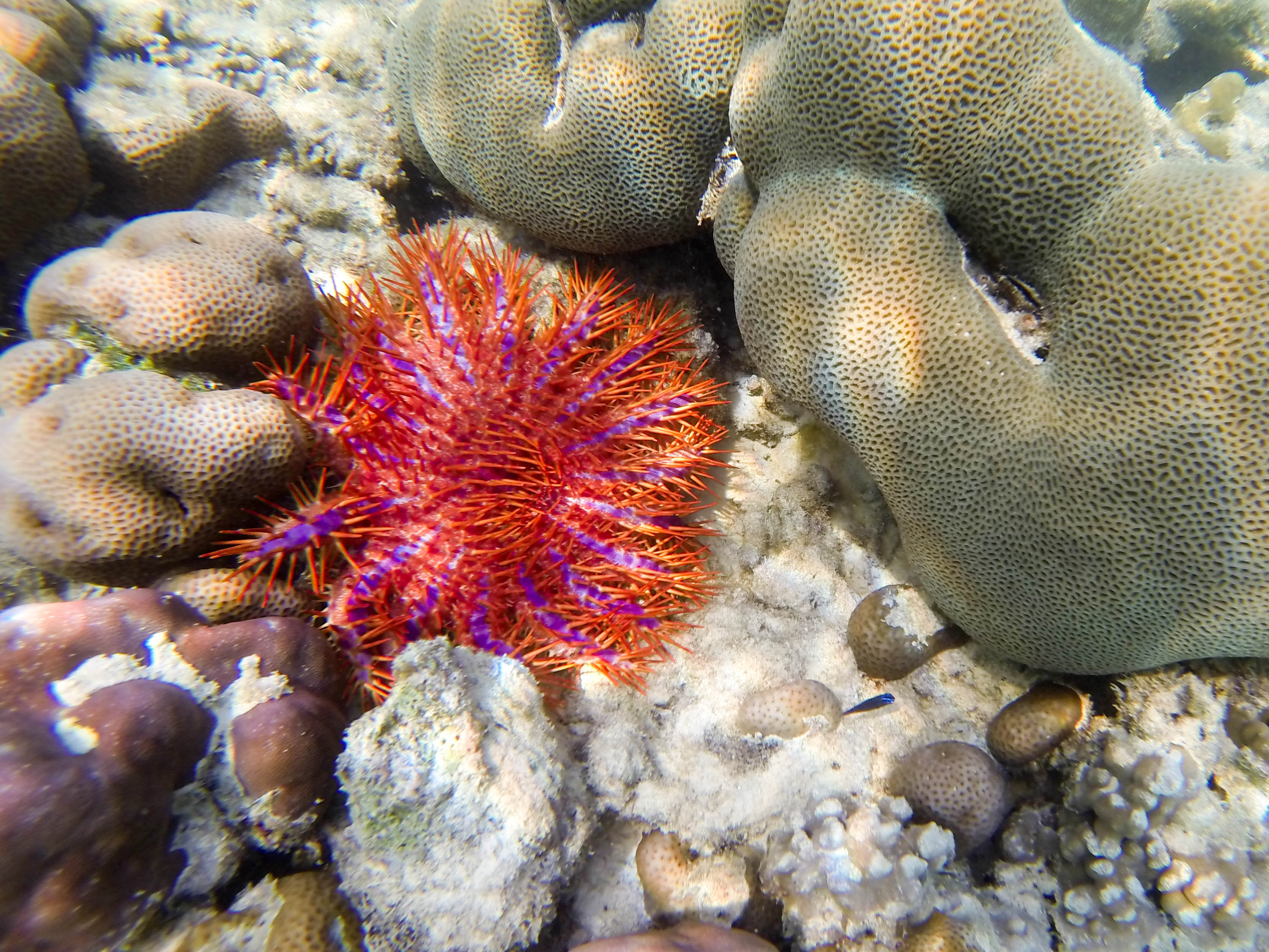 Crown-of-thorns starfish